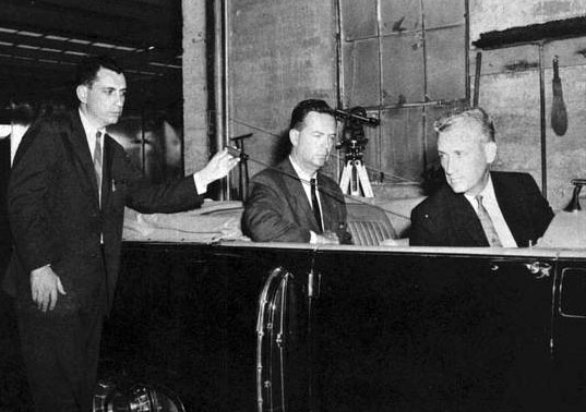 Arlen Specter of the Warren Commission reproducing the assumed alignment of the single bullet theory. Original caption: "Photograph taken at garage, following reenactment of aseasainatlon on May 24, 1964, depicting probable angle of declination of bullet which passed through President Kennedy and Governor Connally."[1]